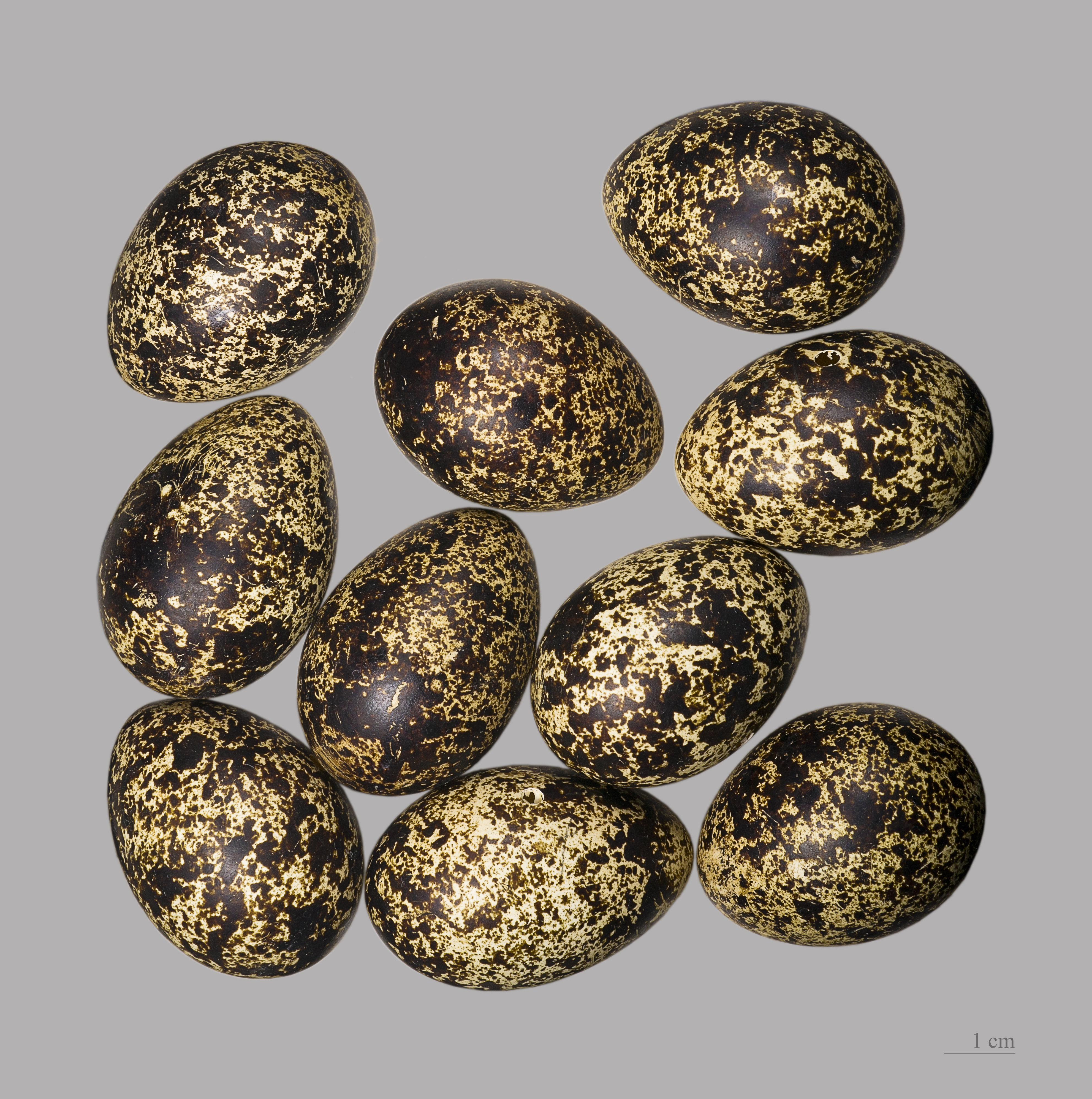 Egg of Scandinavian Willow Ptarmigan. Collection of Jacques Perrin de Brichambaut. Locality : Fennia Vuolijoki, Finland.